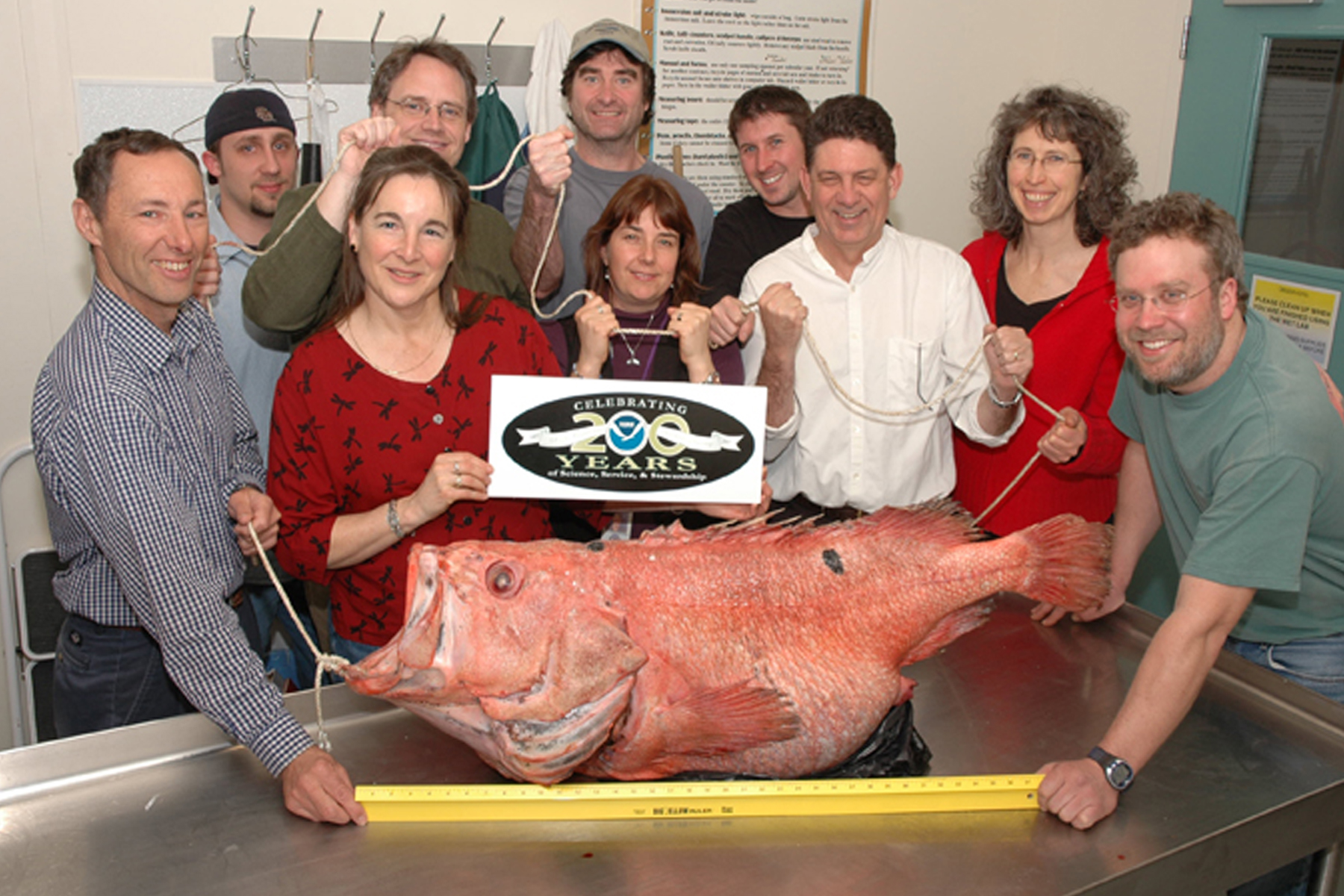 Greetings from Alaska Fisheries Science Center (AFSC) in Seattle, Washington. Pictured here is one of the largest Shortraker Rockfish ever seen. This Shortraker Rockfish was caught in a commercial fishing net in the Bering Sea in the winter of 2007, then frozen and donated to AFSC for research. The fish weighed in at 62 pounds and was measured at 112 centimeters (44.1 inches). Scientists with the AFSC Age and Growth Lab took otoliths (ear bones) from the fish to determine its age. After viewing the otoliths under a microscope, it was determined that the age of the fish was between 90 to 115 years old. Pictured with the now famous fish are several Science Center staff. From left: Jerry Berger, Dan Foy, Glenn Campbell, Karen Teig, Charles Hutchinson, Susan Mcdermott, Brian Mason, Allison Barns, and Olav Ormseth.